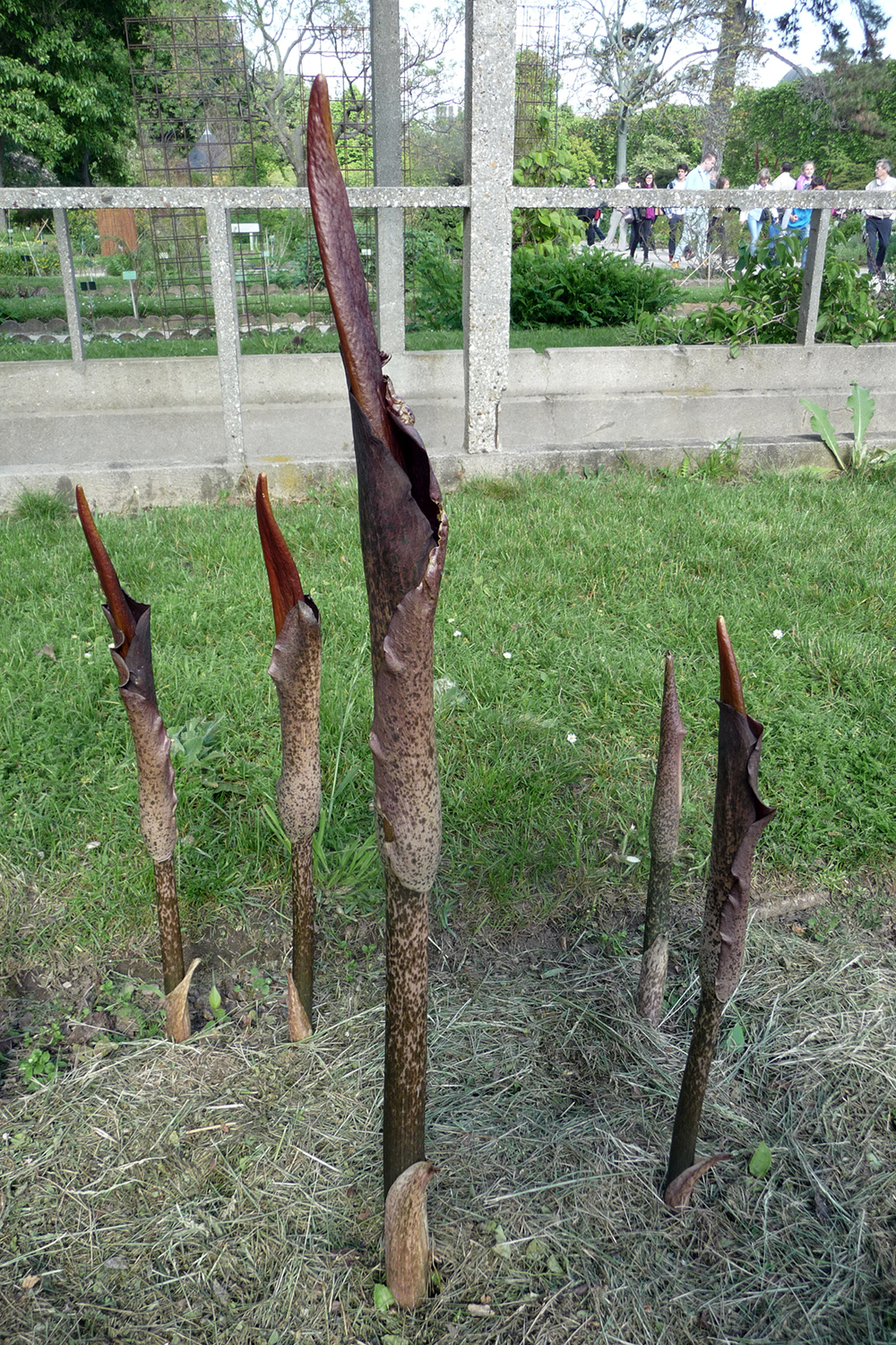 Amorphophallus rivieri